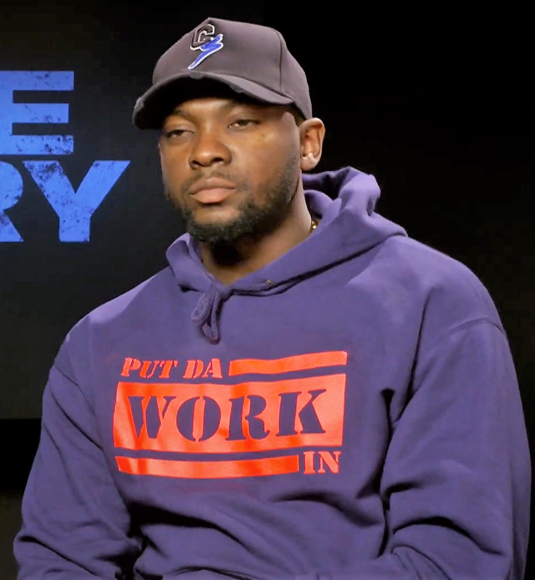 Interview with Rapman | Blue Story Maya Egbo interviews director and writer Rapman from "Blue Story".